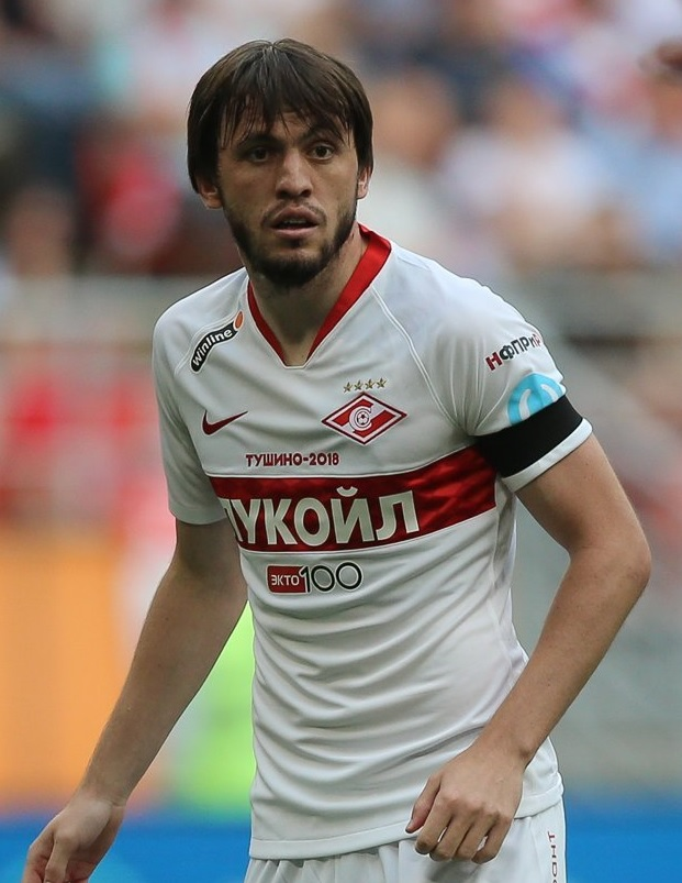 Reziuan Mirzov with FC Spartak Moscow in a game against FC Tambov.